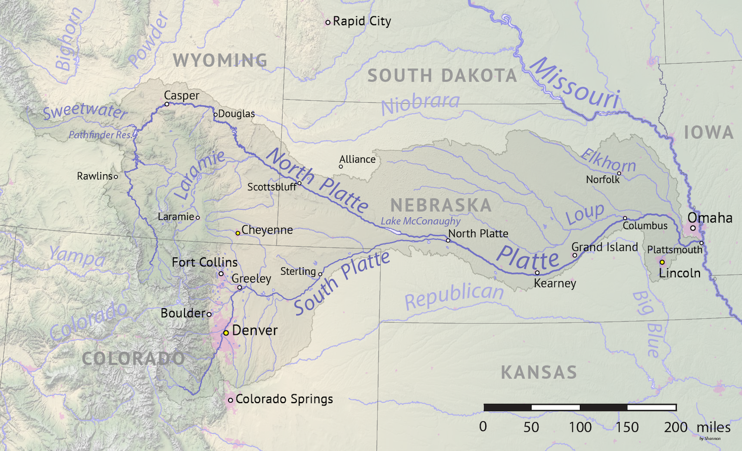 Map of the Platte River drainage basin in the central United States. Made using USGS National Map and NASA SRTM data.